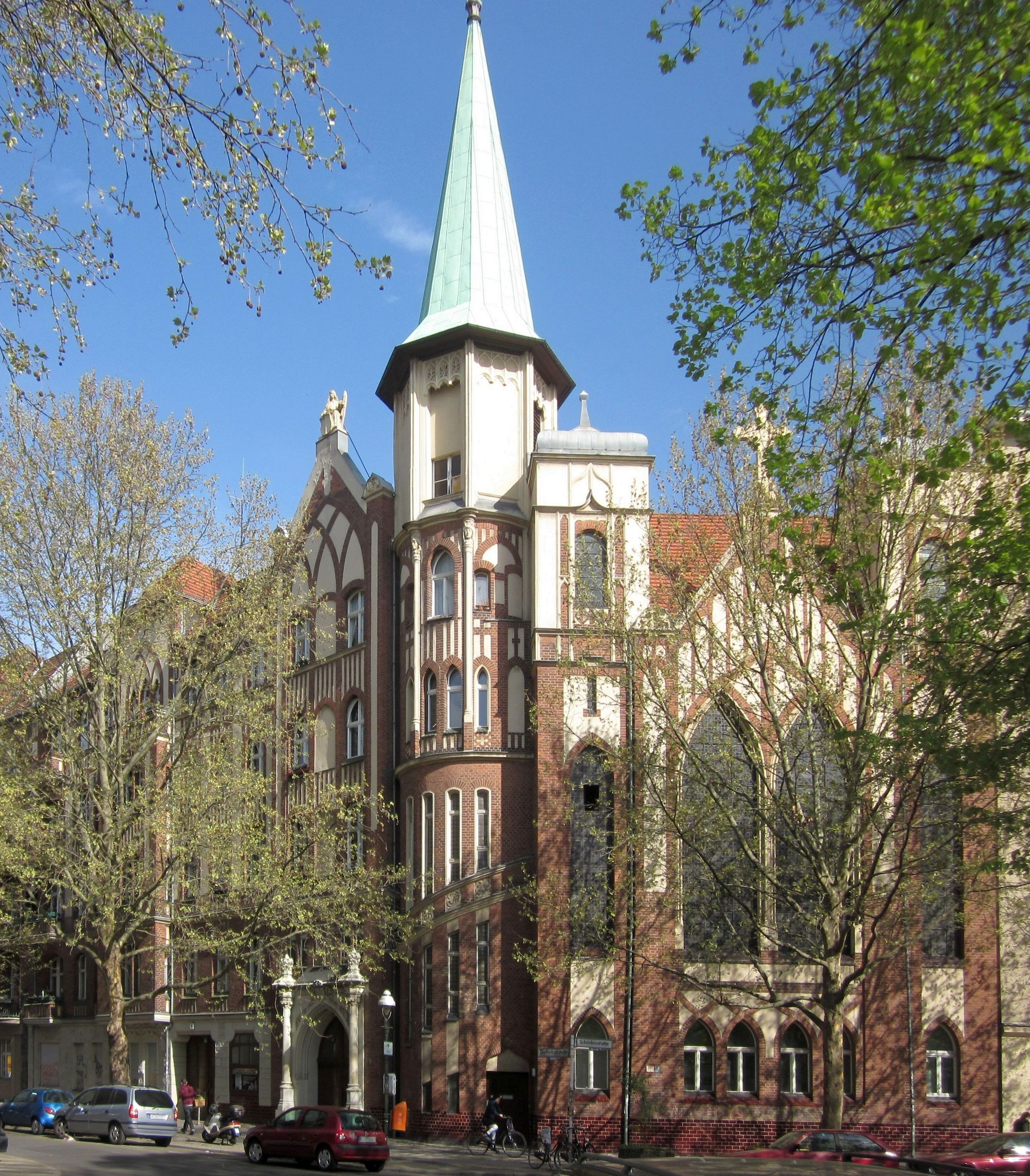 The Protestant-Methodist Christus-Kirche (Christ Church) at Dieffenbachstraße No. 39, corner of Schönleinstraße No. 9 (on the right), in Berlin-Kreuzberg. The church was built from 1905 to 1906 to a design by George Pourroy. In 1908, a nursing home with a residential building in front was built at Dieffenbachstraße No. 40, also by Pourroy. The whole complex has been designated as a cultural heritage monument. It is also part of the protected historic buildings area Dieffenbachstraße.